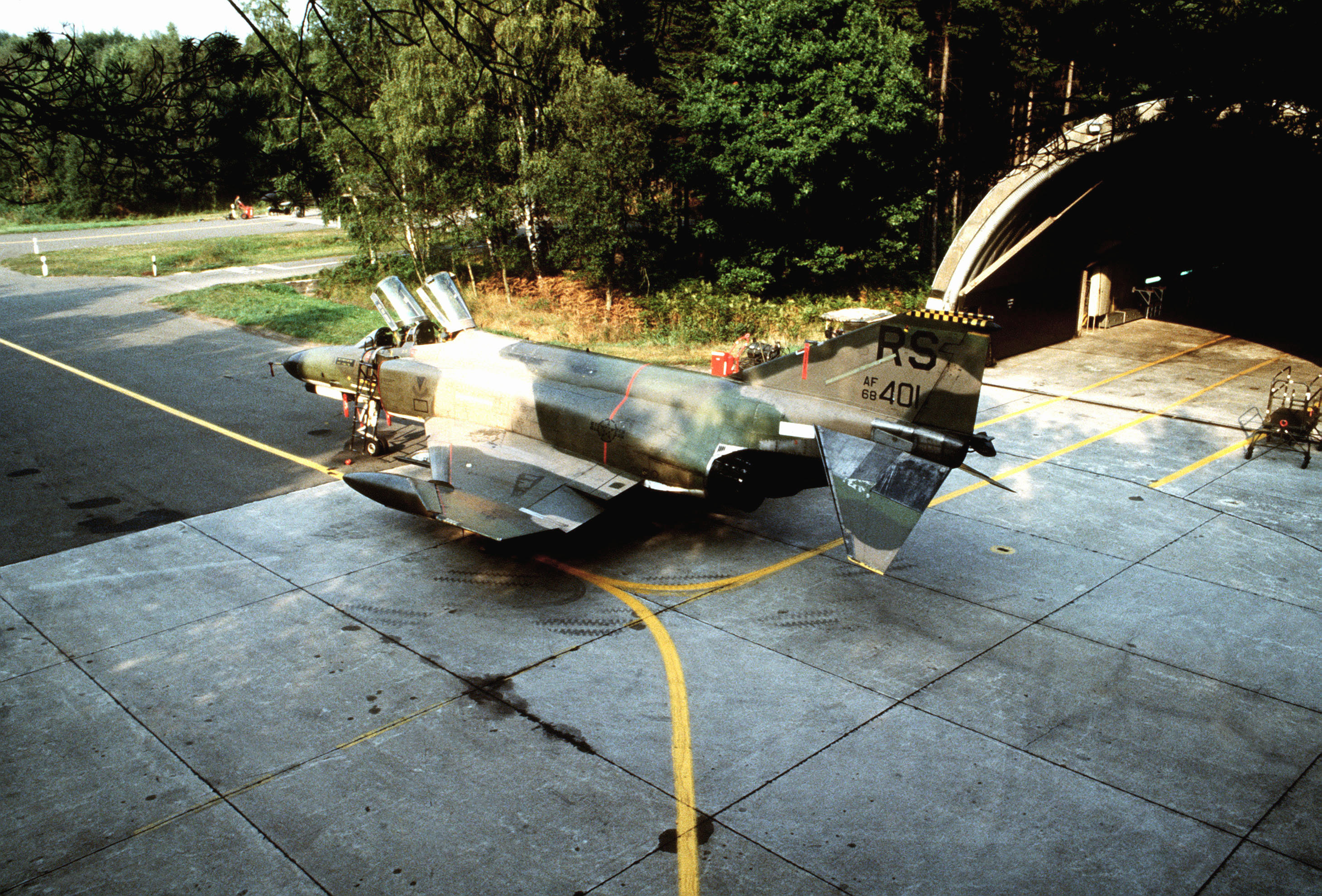 A U.S. Air Force McDonnell Douglas F-4E-38-MC Phantom II (s/n 68-0401) from the 512th Tactical Fighter Squadron, 86th Tactical Fighter Wing, parked on the apron at Ramstein Air Base, Germany, during exercise "Reforger '82" on 15 September 1982.